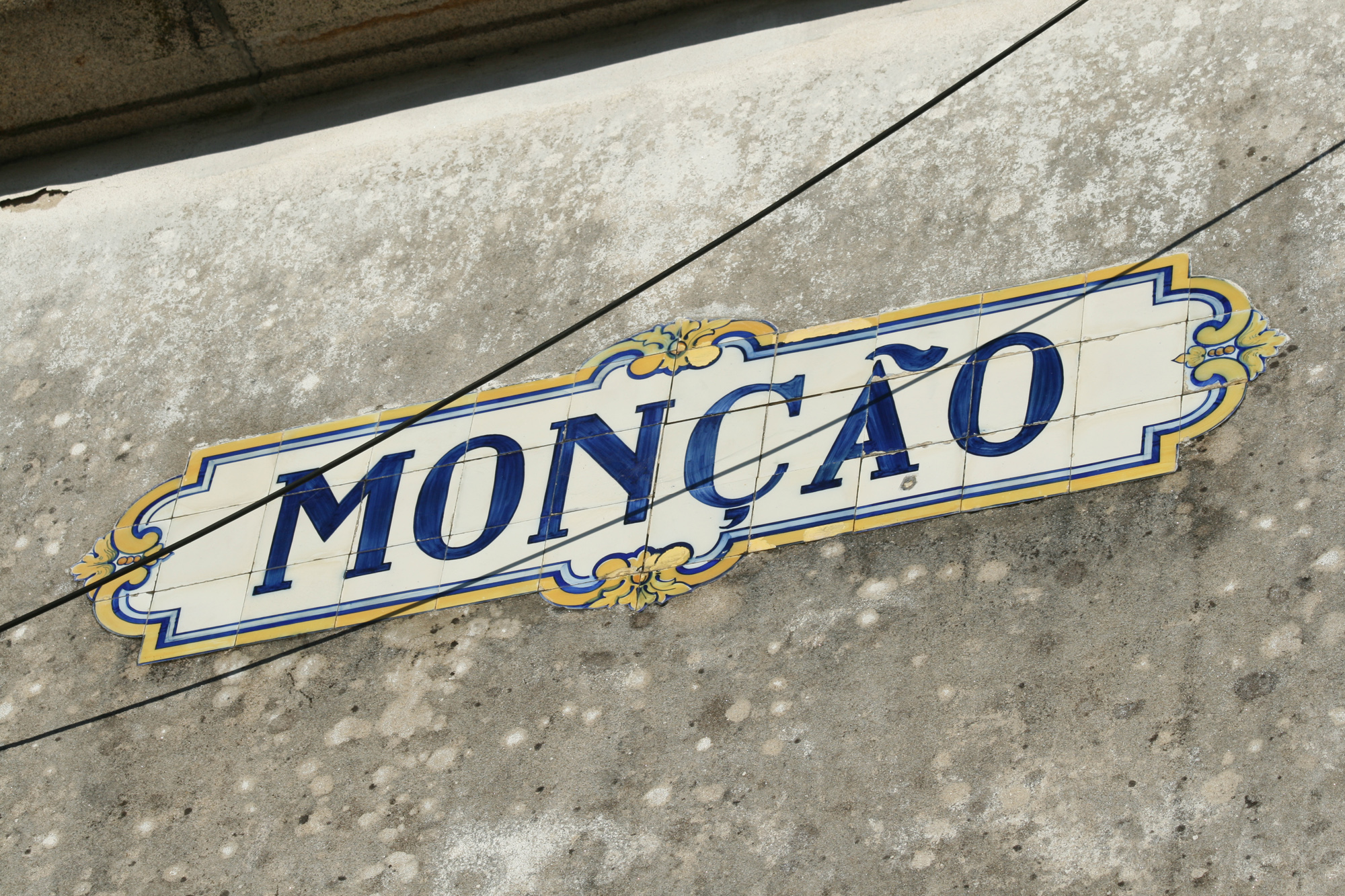 Former train station of Monção, Portugal